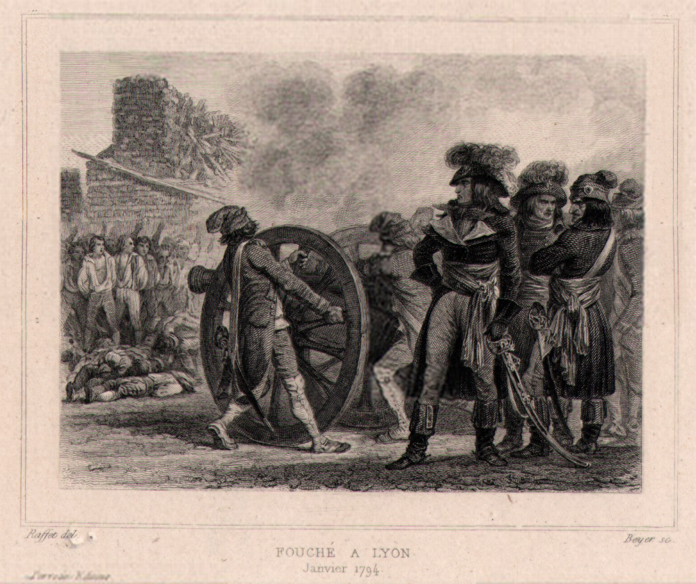 French Revolution - Fouché - Repression of Lyons Insurgency (January 1794) - National Convention. Original steel engraving drawn by Raffet, engraved by Beyer. Chine collé.